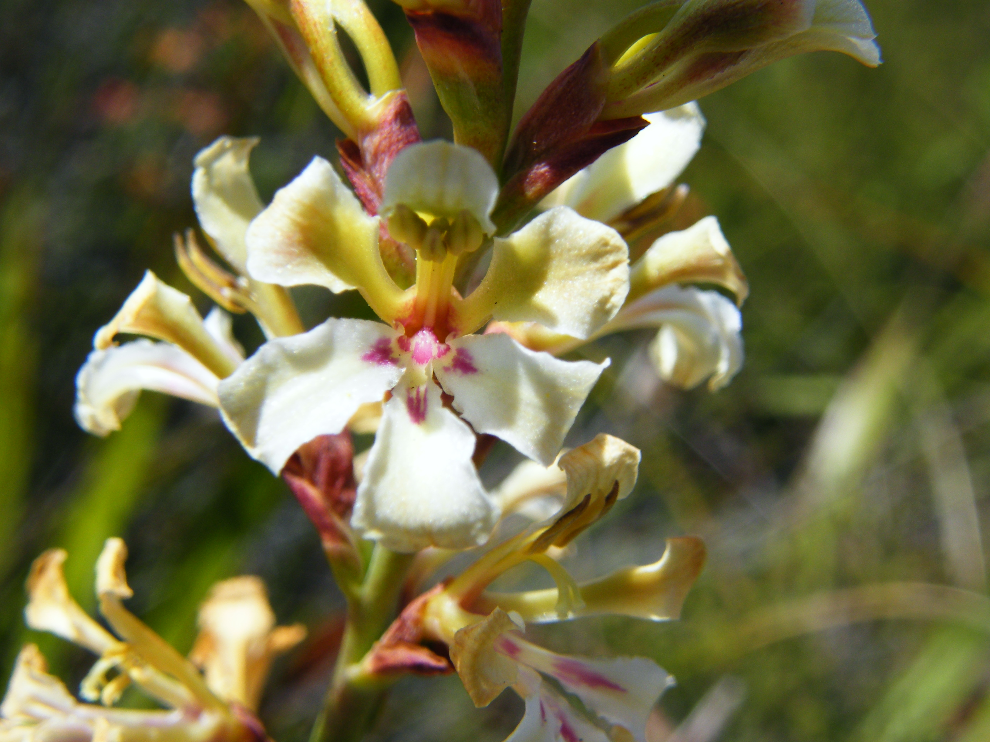 Tritoniopsis unguicularis, Table Mountain Cape Town